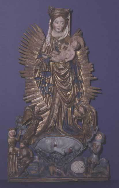 Marquard Hasse: wooden relief, 1430. Woman of the apocalypse from Uusikaupunki, Finland. In National museum's collections, Helsinki